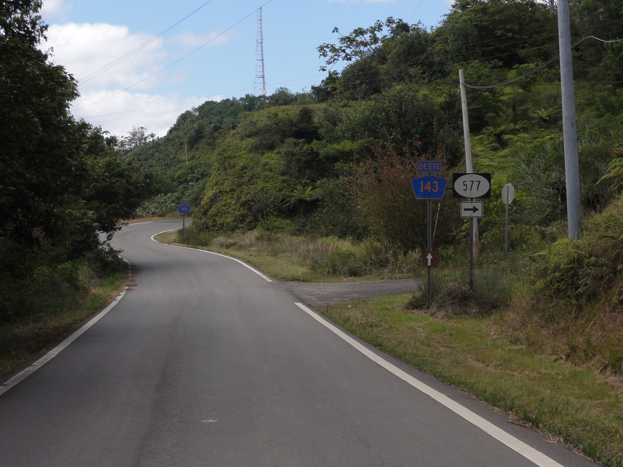 Carretera PR-143 (Viajando hacia el Oeste) y acercandose a la Carretera PR-577 hacia el Cerro Maravilla, Barrio Anon, Ponce, Puerto Rico